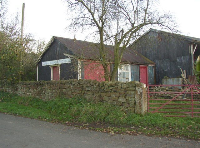 Temperance Hall, Winskill, Hunsonby CP Entitled 'Sons of Temperance Room'. If this is reopened the daughters had better be included as well!